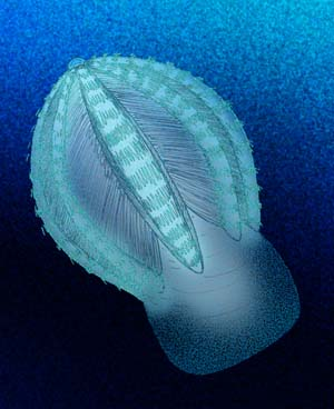 Reconstruction of the Chengjiang ctenophore, Maotianoascus octanarius, from Lower Cambrian Yunnan